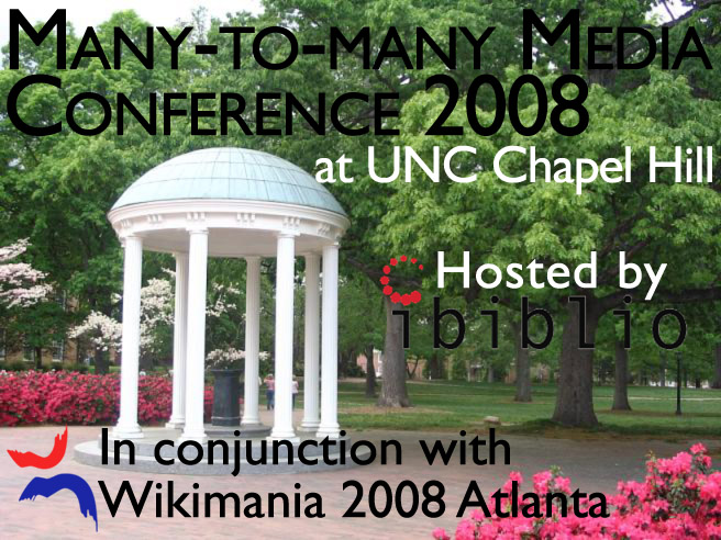 "UNC WM ibiblio event" promotional picture for use in messages and user pages.